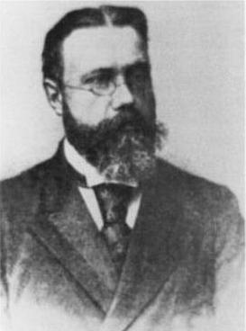 Friedrich Jolly